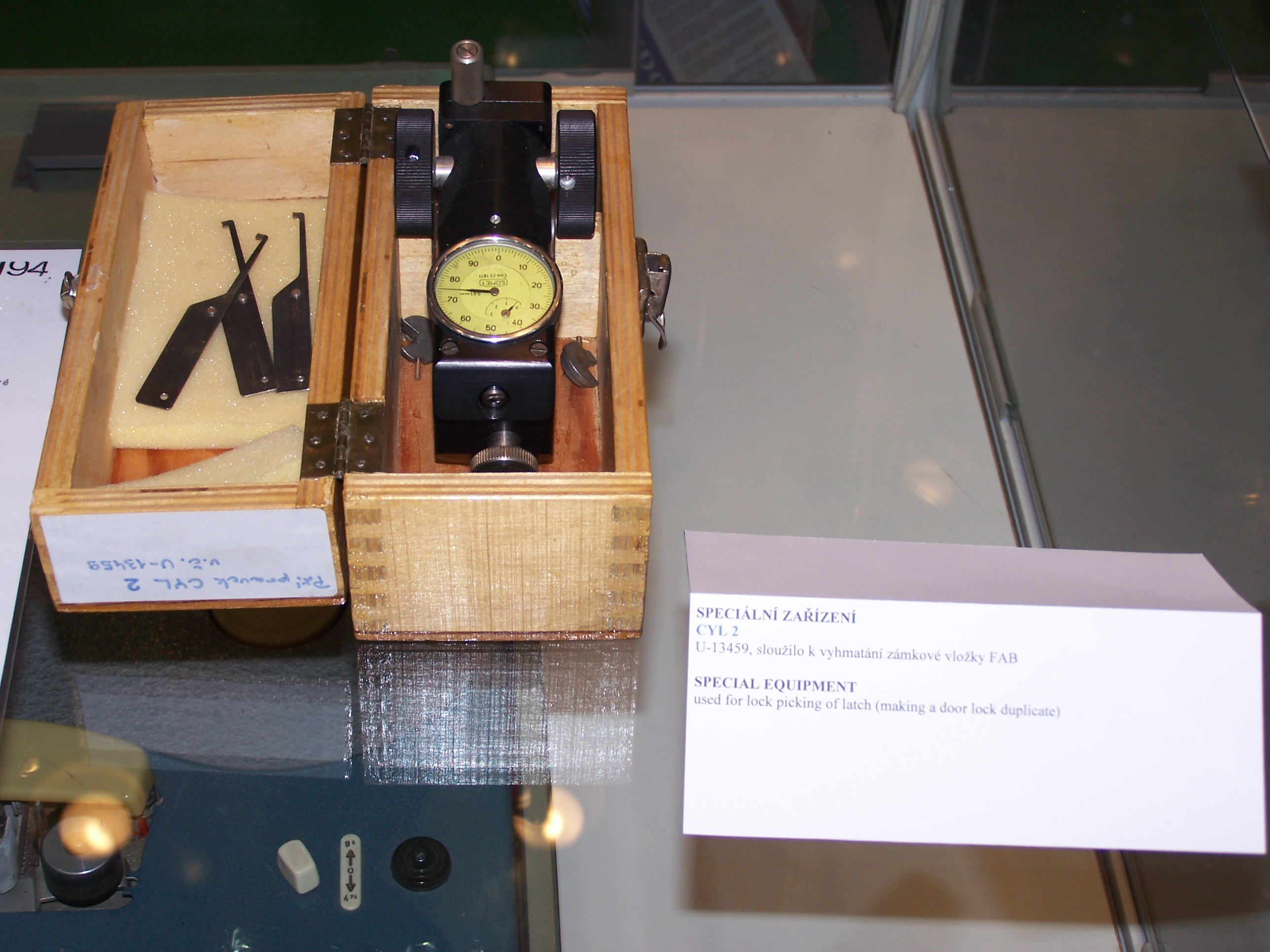 CYL2, device used by Czech StB for lock picking and creating duplicates of common pin tumbler locks.